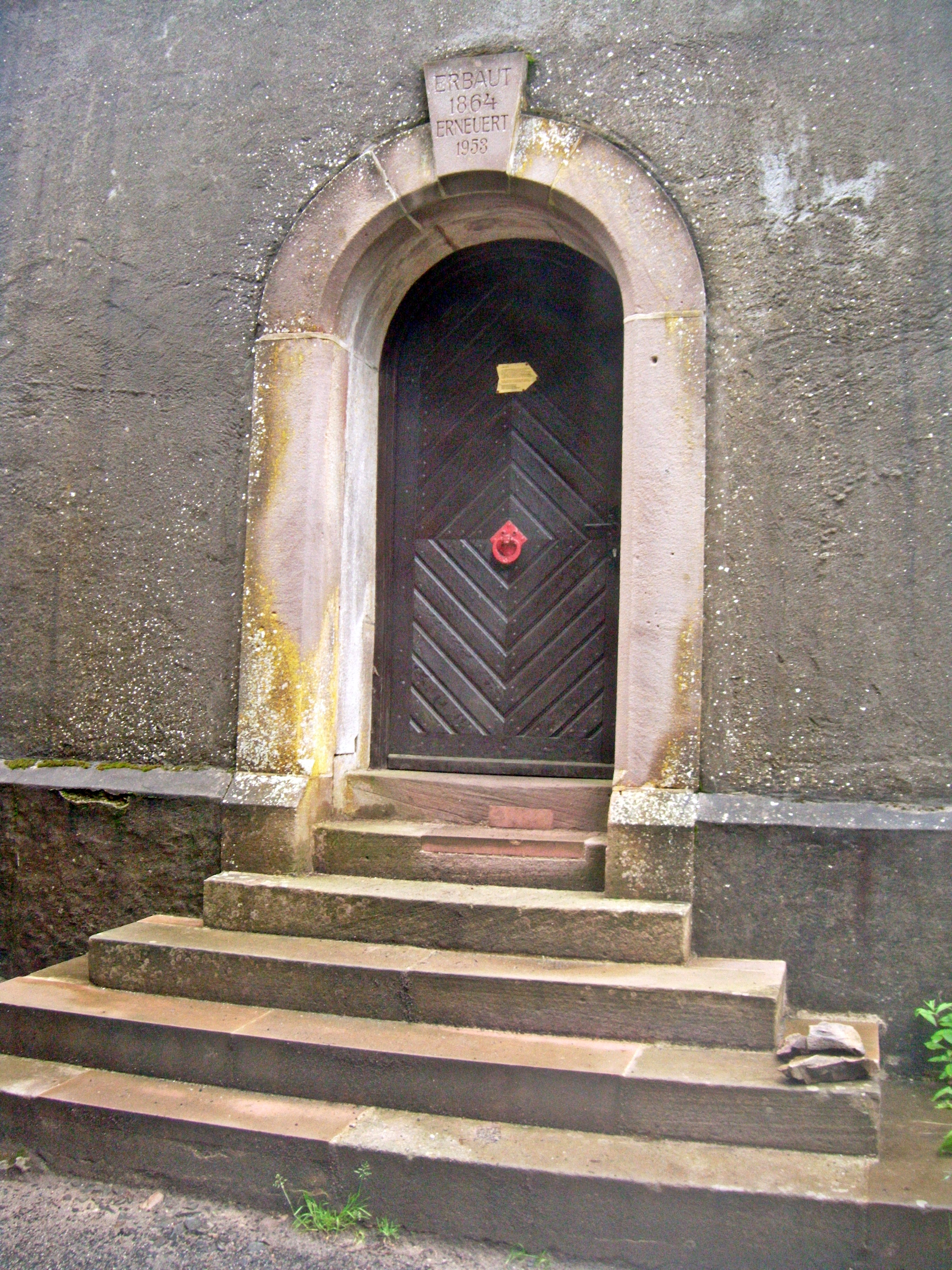 Donnersberg, Ludwigsturm, Eingang